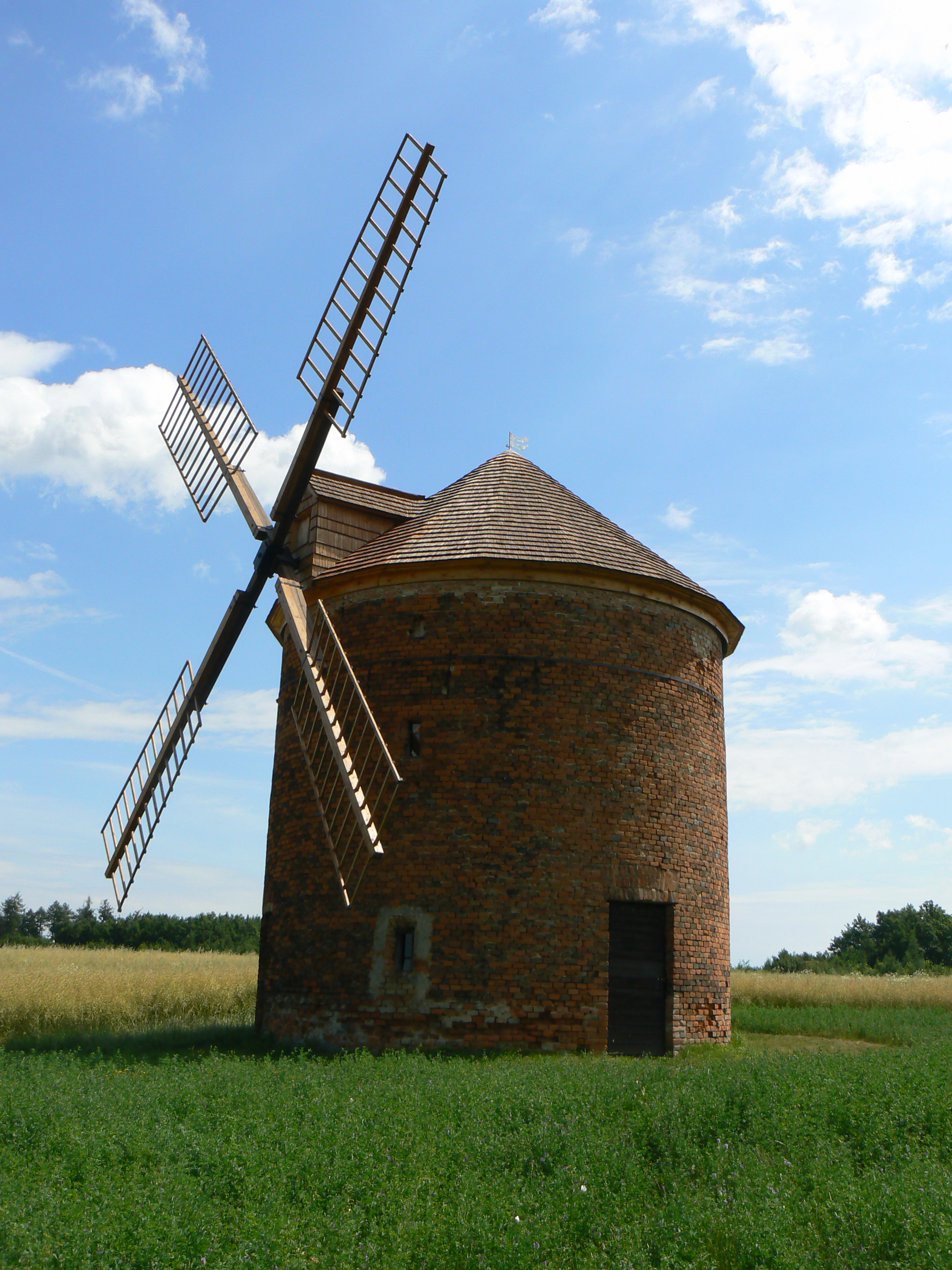 Windmill Chvalkovice.